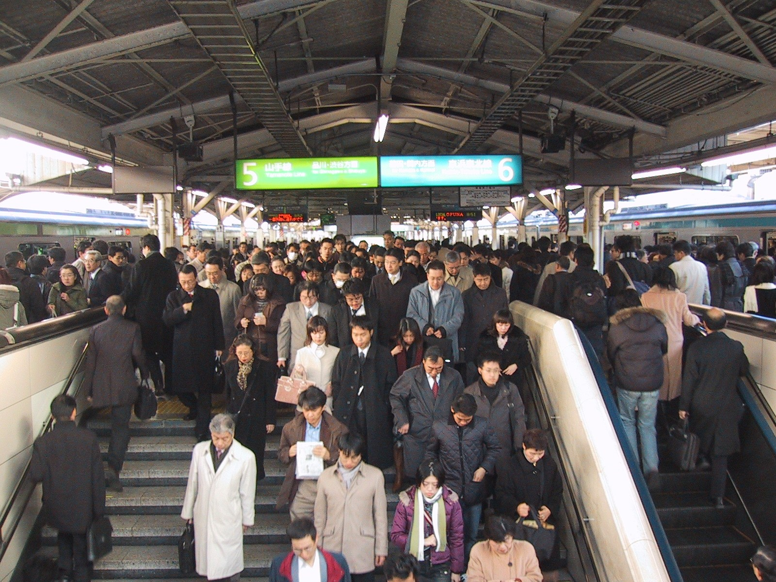 Rush hour at Tokyo Station Yamanote Line and Keihintouhoku Line from Ueno